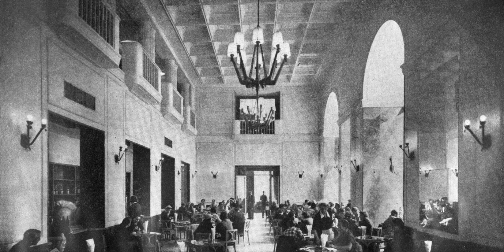 Confectioner's shop on Constitution Square, Warsaw, 1952